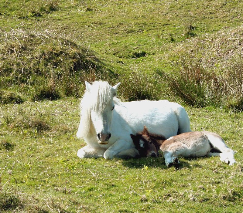 Dartmoor Pony and foal.